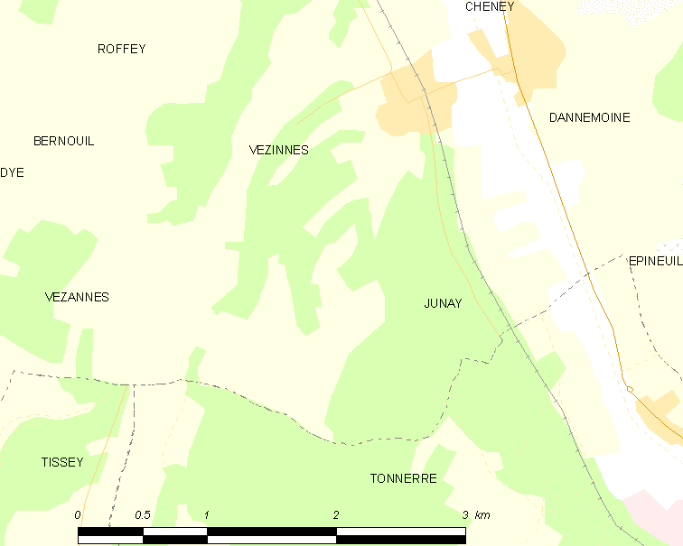 Map of French municipality Junay